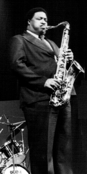 American jazz tenor saxophonist Houston Person in Paris, France